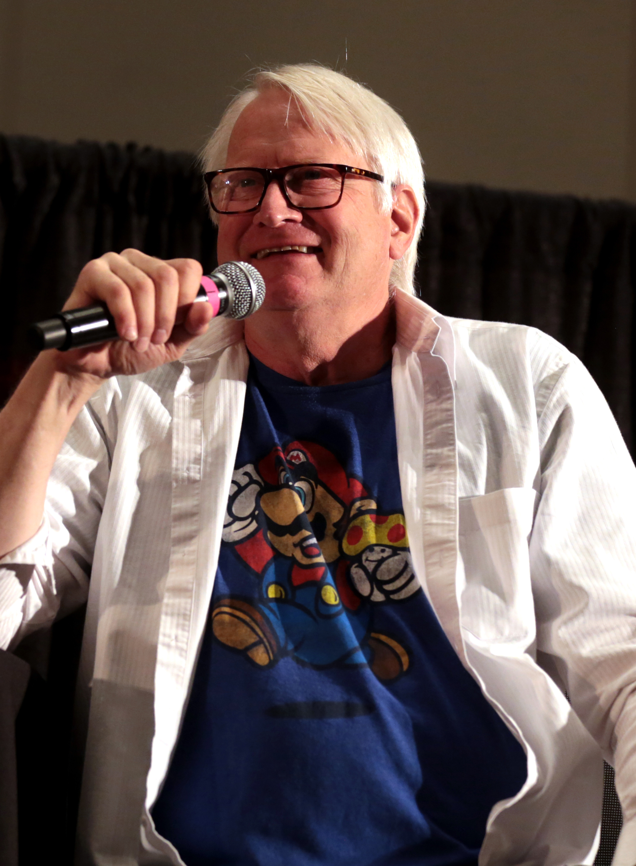 Charles Martinet speaking at the 2018 Phoenix Comic Fest in Phoenix, Arizona.